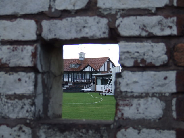 Kidderminster Victoria cricket club. Tickets were sold for matches through this hole.